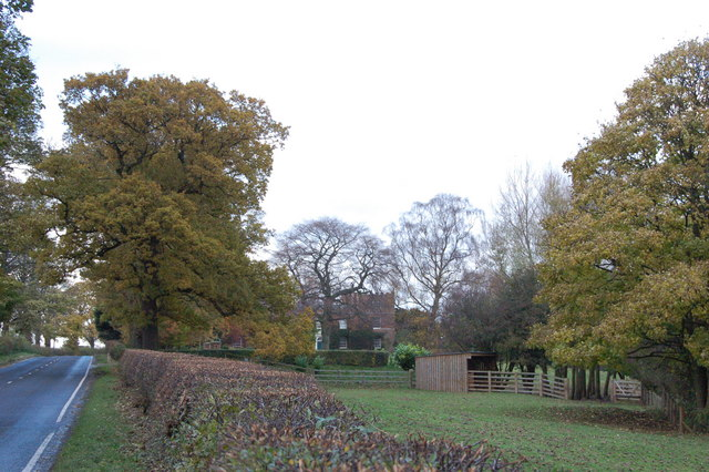 Otterington Hall peeking out from behind the trees Difficult to get a good proper view of the hall...